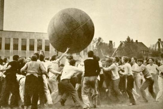 Early photo the pushball contest at Washington & Jefferson College.